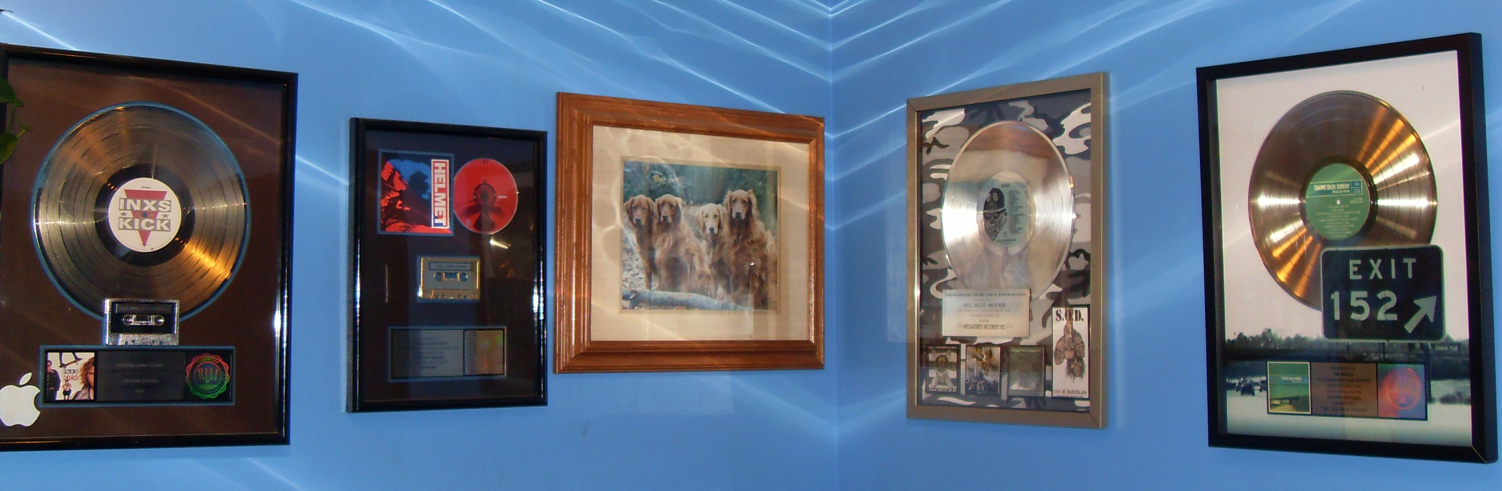 Displayed Records at Big Blue Meenie in Jersey City. Thank you to Tim and Jennene for giving a tour of their facility.